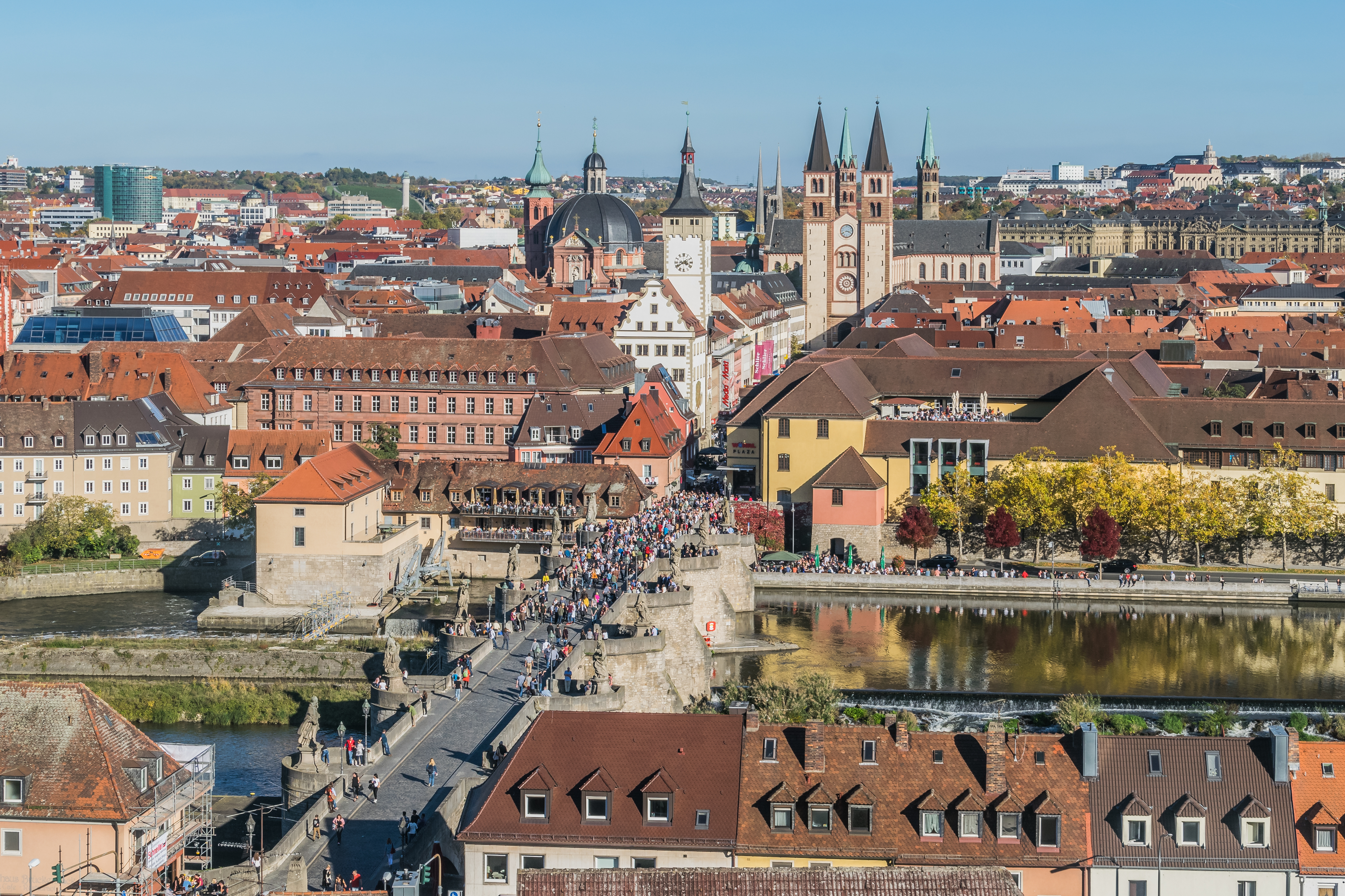 View of the old bridge over the Main in Würzburg, Bavaria, GermanyThis is a photograph of an architectural monument.